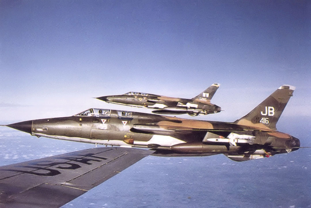 388th Tactical Fighter wing F-105F Wild Weasel aircraft, flying from Korat RTAFB, Thailand, 1972 Republic F-105F-1-RE Thunderchief 63-8265 17th WWS (JB) Aircraft later converted to F-105G crashed at George AFB, Ca. on failed takeoff. Burned but both crew members survived. I have it going to MASDC as FK0092 Nov 11, 1982 and then to Torrejon AB in Spain for ABDR use. Republic F-105F-1-RE Thunderchief 62-416 Detachment 1, 561st TFS (WW) Aircraft later converted to F-105G. Now on display at Plant 42, Palmdale, CA, now the Joe Davies Heritage Air Park